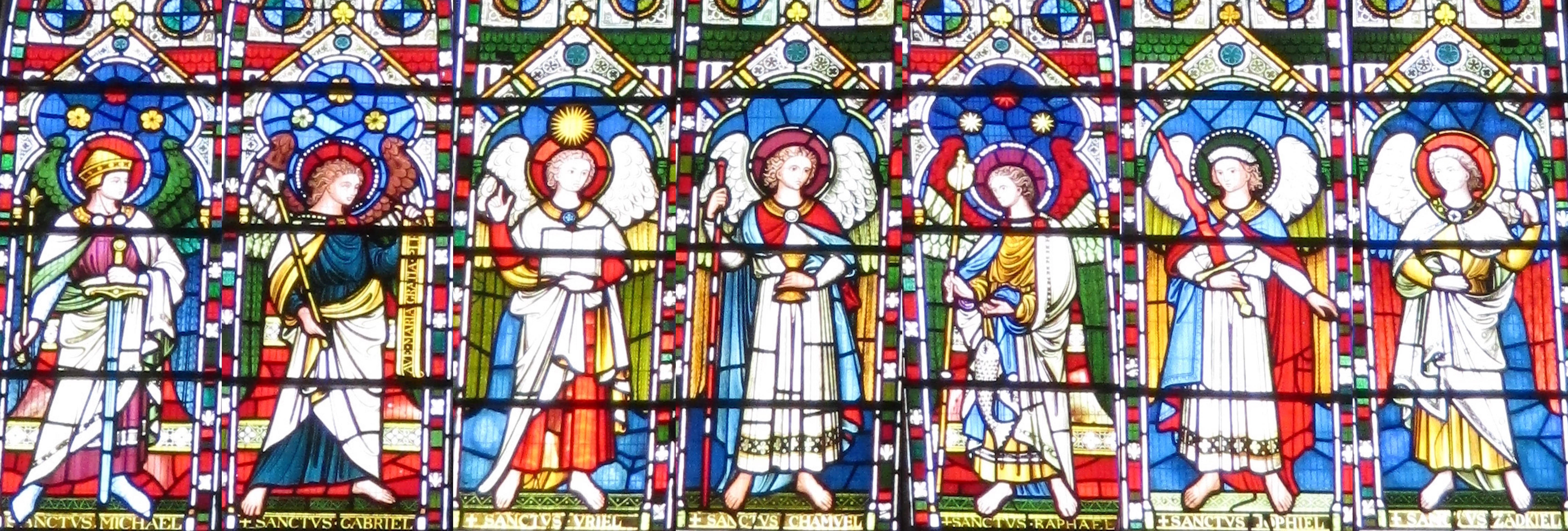 Seven Archangels, from left to right: Michael, Gabriel, Uriel, Chamuel (Camael), Raphael, Jophiel and Zadkiel. Stained glass made in 1862 at St Michael and All Angels Church, Brighton, East Sussex, England.